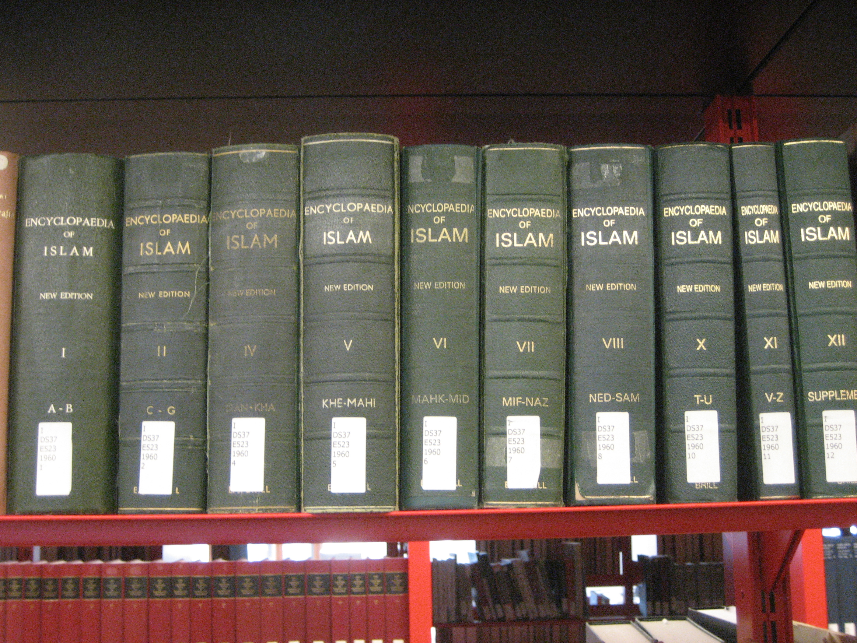 Encyclopaedia of Islam, 2nd ed, Leiden, Brill Publishers, 1960-2005. Incomplete library set.